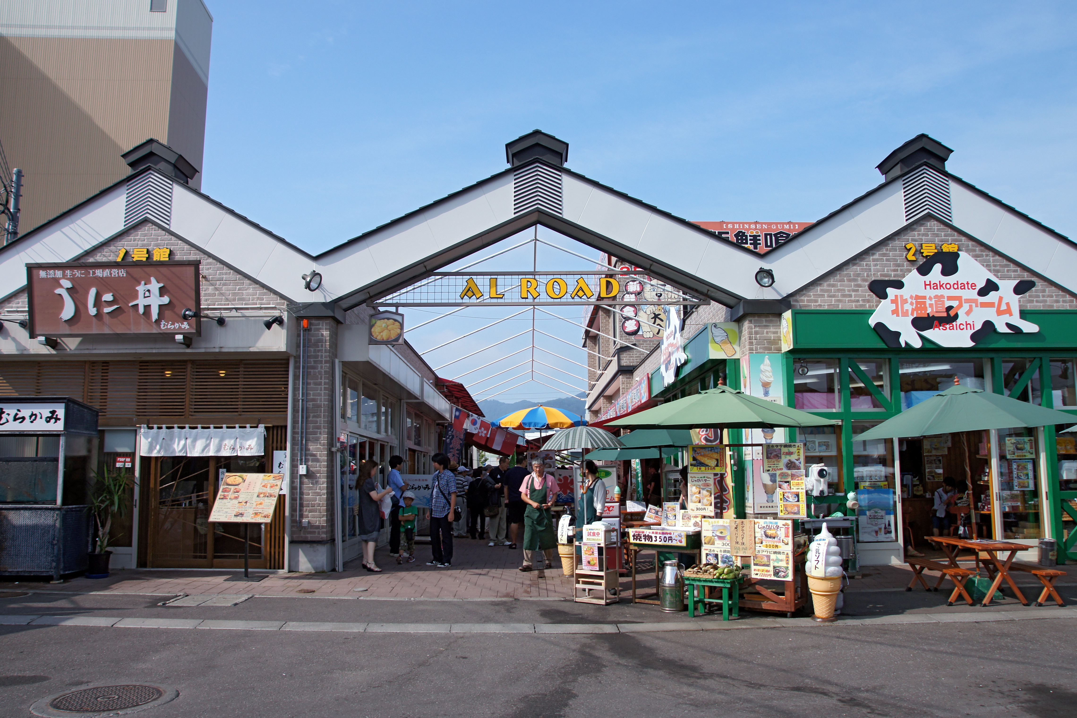 at Hakodate Asaichi in Hakodate, Hokkaido prefecture, Japan